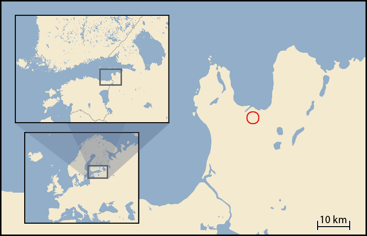 Distribution of the Votic language.